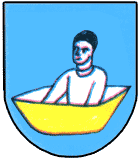 Czarków COA